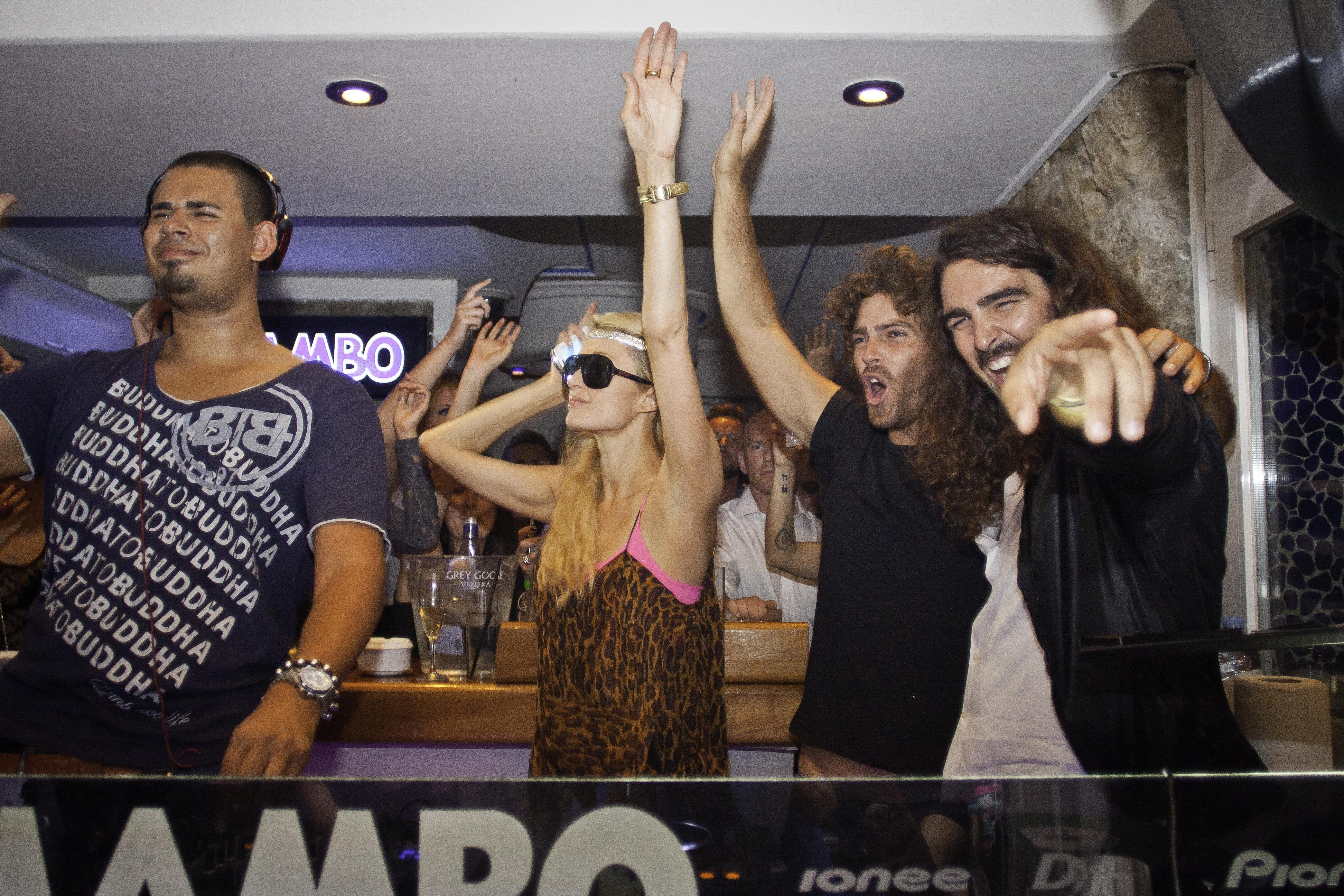 Afrojack (left) and Paris Hilton (center) at Cafe Mambo Ibiza in 2011